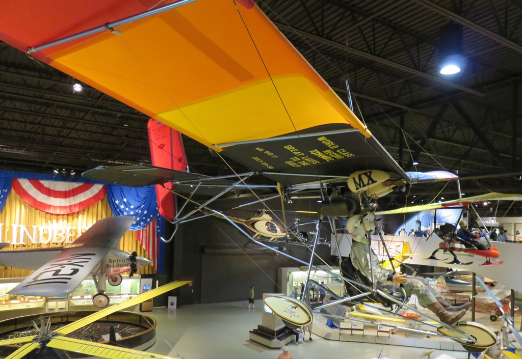 Peter Burgher's Quicksilver MX-1 at the EAA AirVenture Museum.